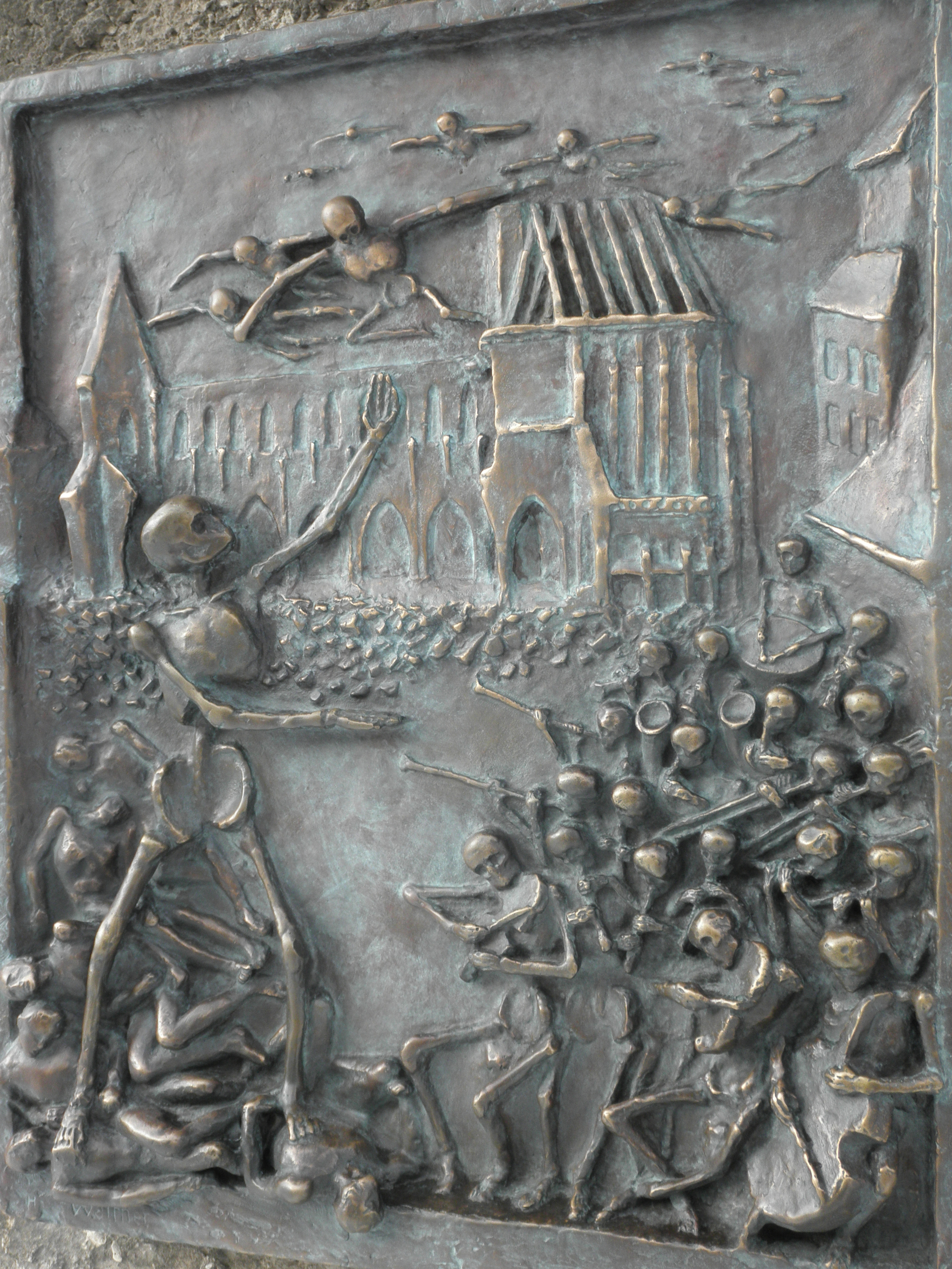 Relief Totentanz (Hans Walther 1947) at the Barfüßerkirche in Erfurt in Thuringia